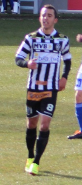 Paul Torres, football player in Landskrona BoIS